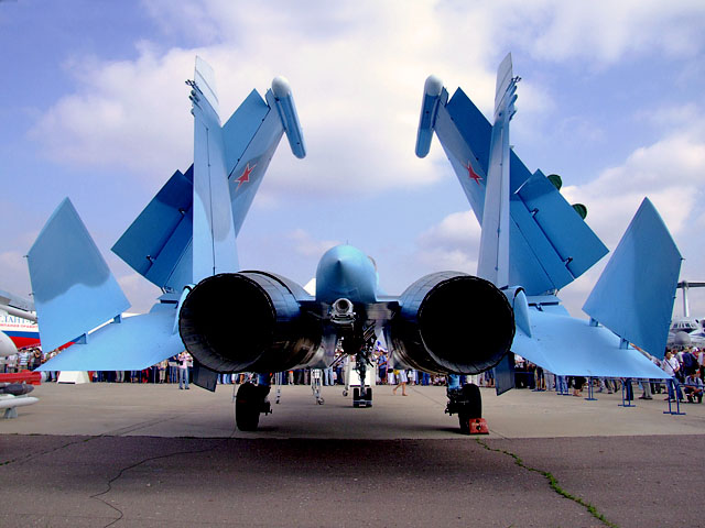 MAKS Airshow-2007. Su-33